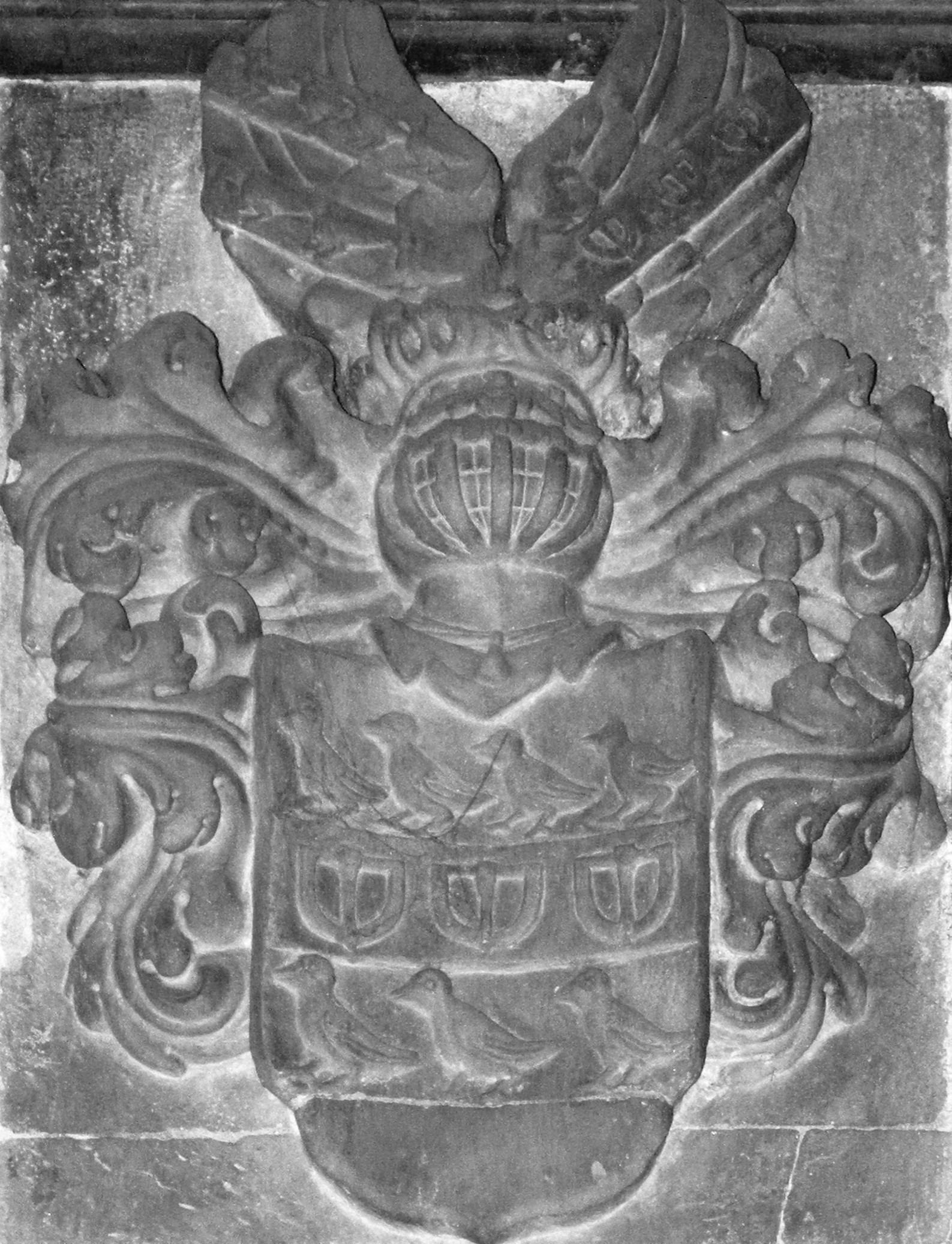 Coat of arms of György III. Drugeth. Epitaph in St. Nicolas Basilica, Trnava.